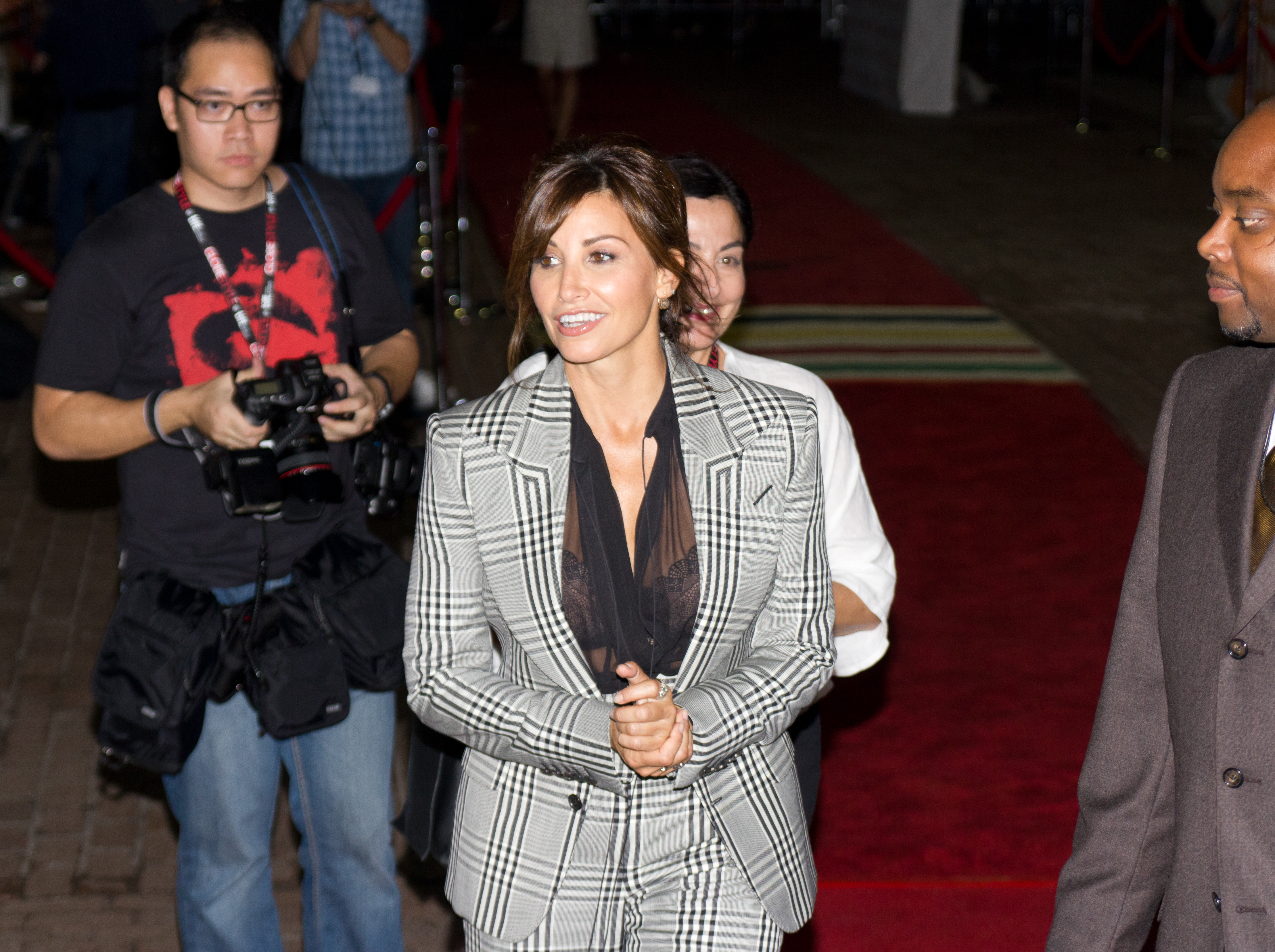 Gina Gershon at the premiere of Killer Joe at the 2011 Toronto International Film Festival